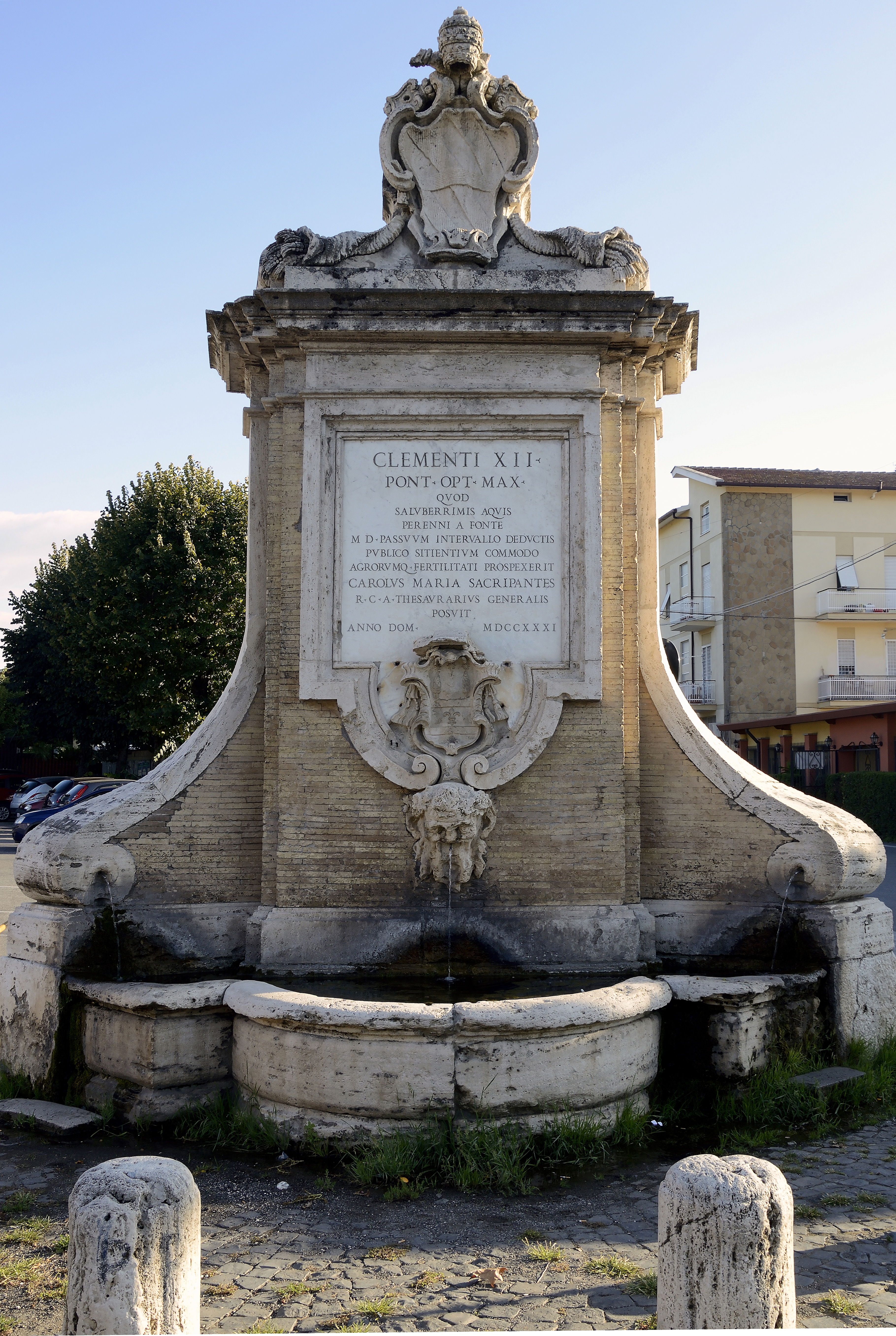 Fountain vermicino of Luigi Vanvitelli